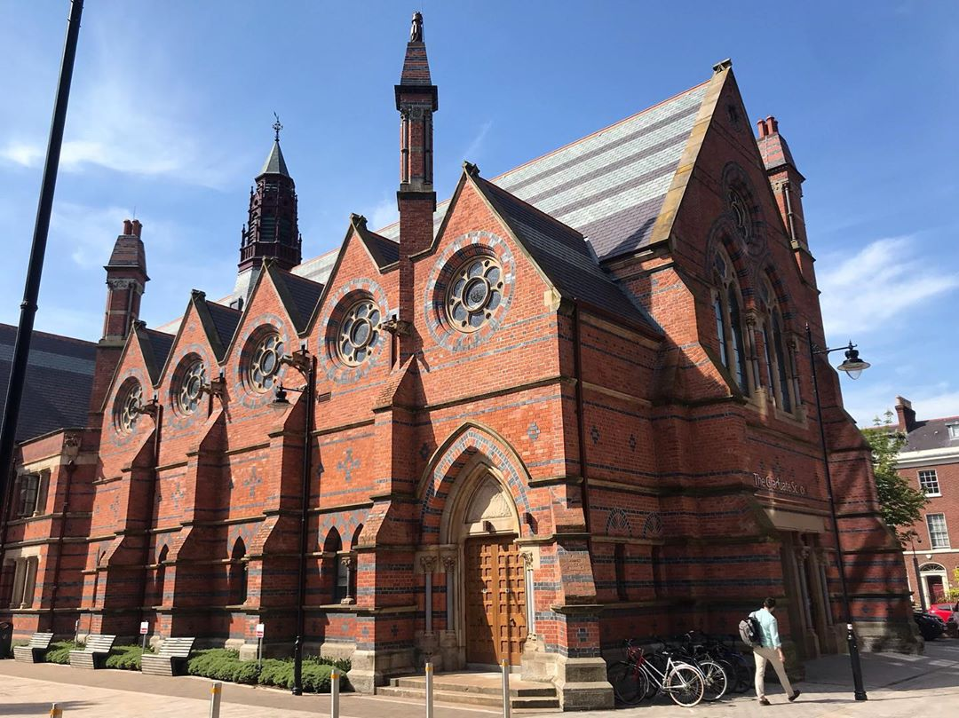 The Lynn Building of the Queen's University of Belfast, taken May 2019